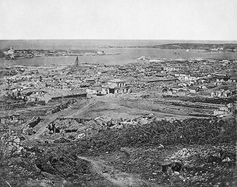 Crimean War 1854-56 The Ukrainian city of Sevastopol seen from the Malakoff No.2 Redoubt showing war damage.